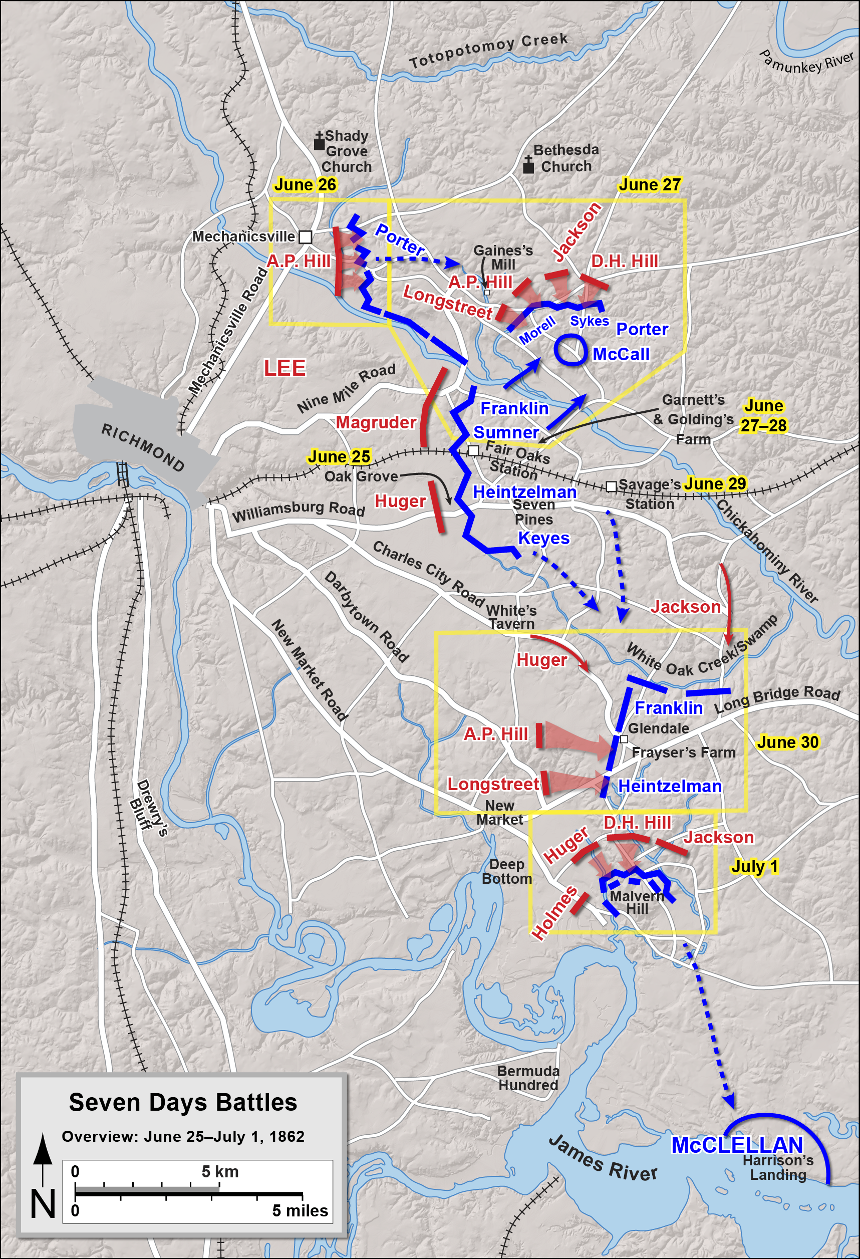 Overview map of the Seven Days Battles of the American Civil War. Drawn by Hal Jespersen in Adobe Illustrator CS5. Graphic source file is available at